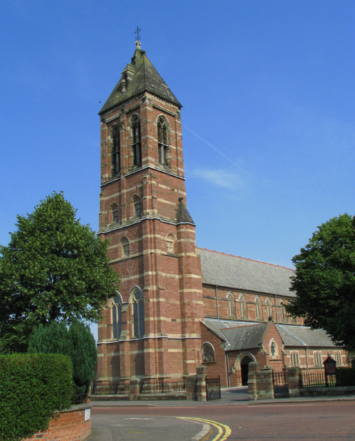 St Mark's Church, Dundela, Belfast. St Mark's Church, Dundela (Church of Ireland), located on the Holywood Road in east Belfast. Designed in red sandstone by the eminent Victorian architect William Butterfield in Gothic revival style. The 150ft high bell tower creates the impression of a larger church.Sir John Betjeman described St Mark's as "Butterfield at his best".